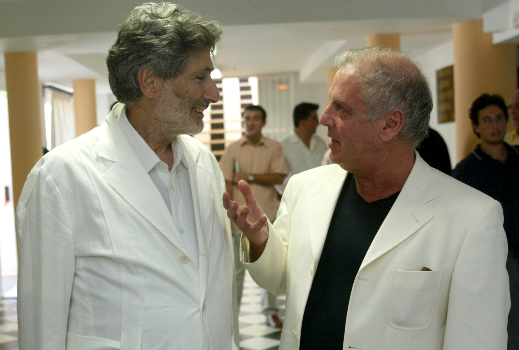 The picture shows a meeting of Edward Said and Daniel Barenboim in Sevilla in 2002